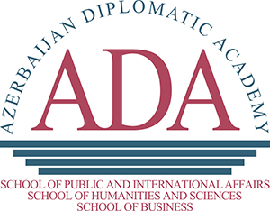 ADA logo